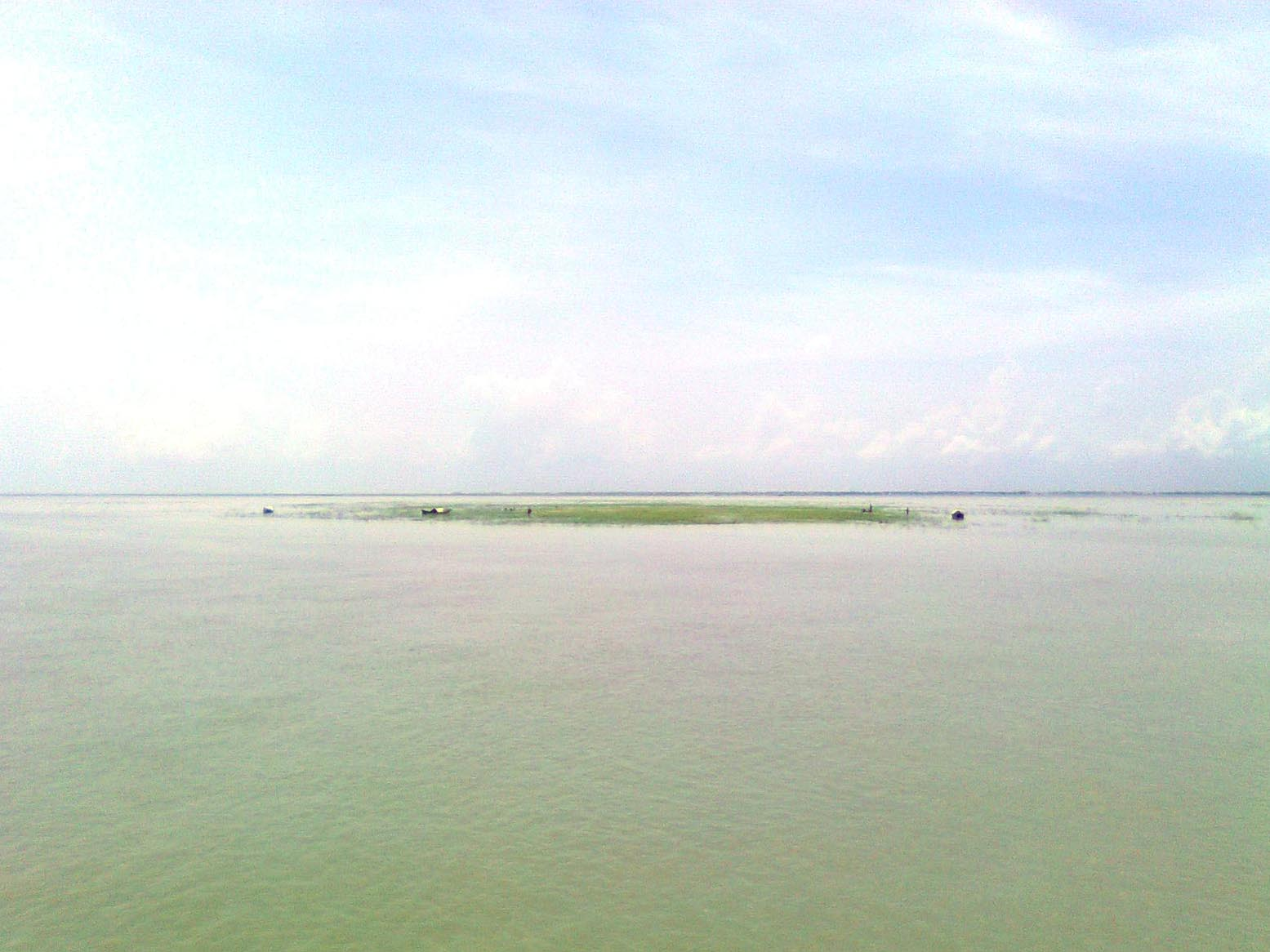 This is a 'Char' or wetland in Bangladesh, specifically in Shariatpur.